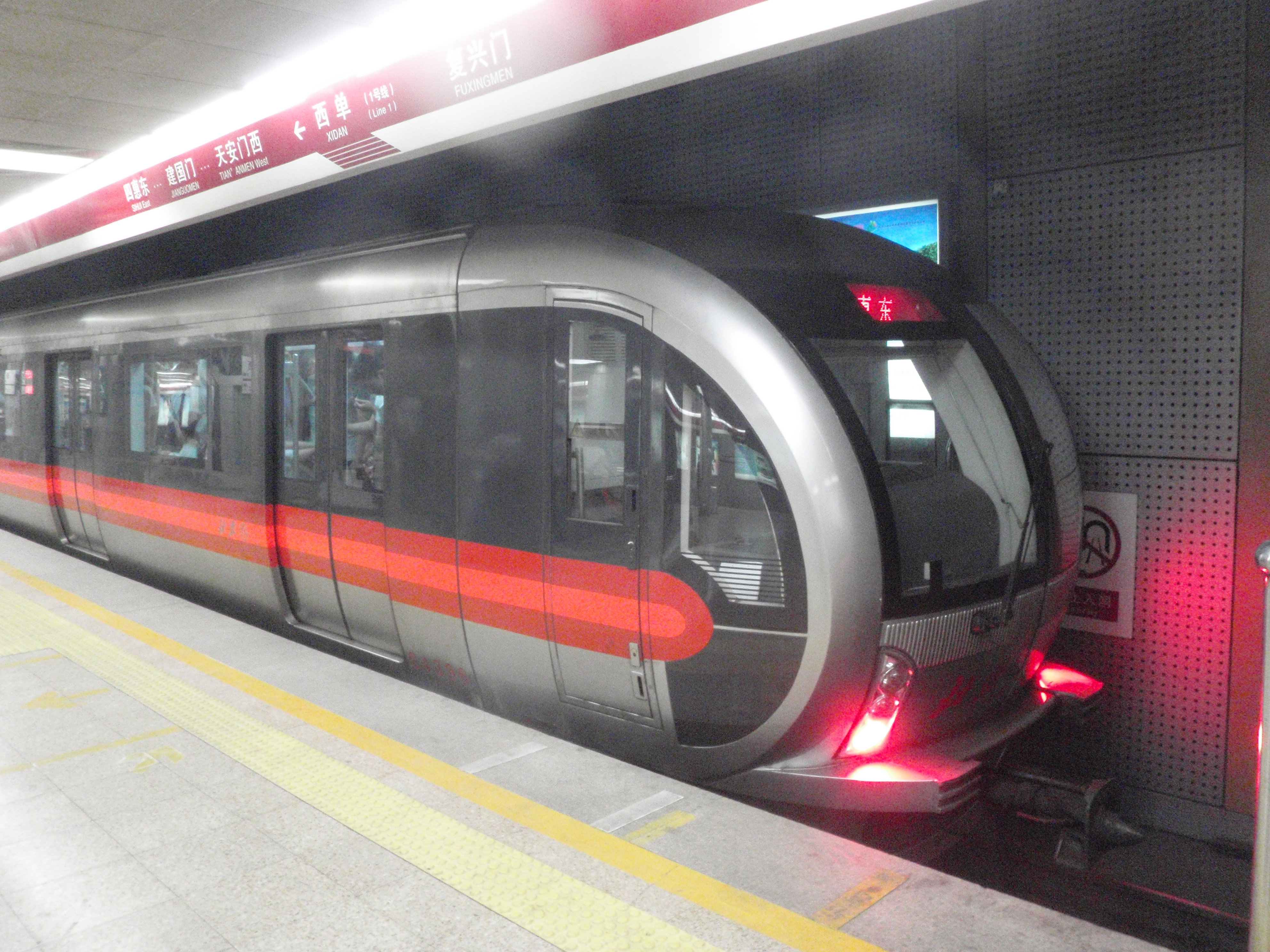 The latest type of EMU on Beijing Subway Line No.1.